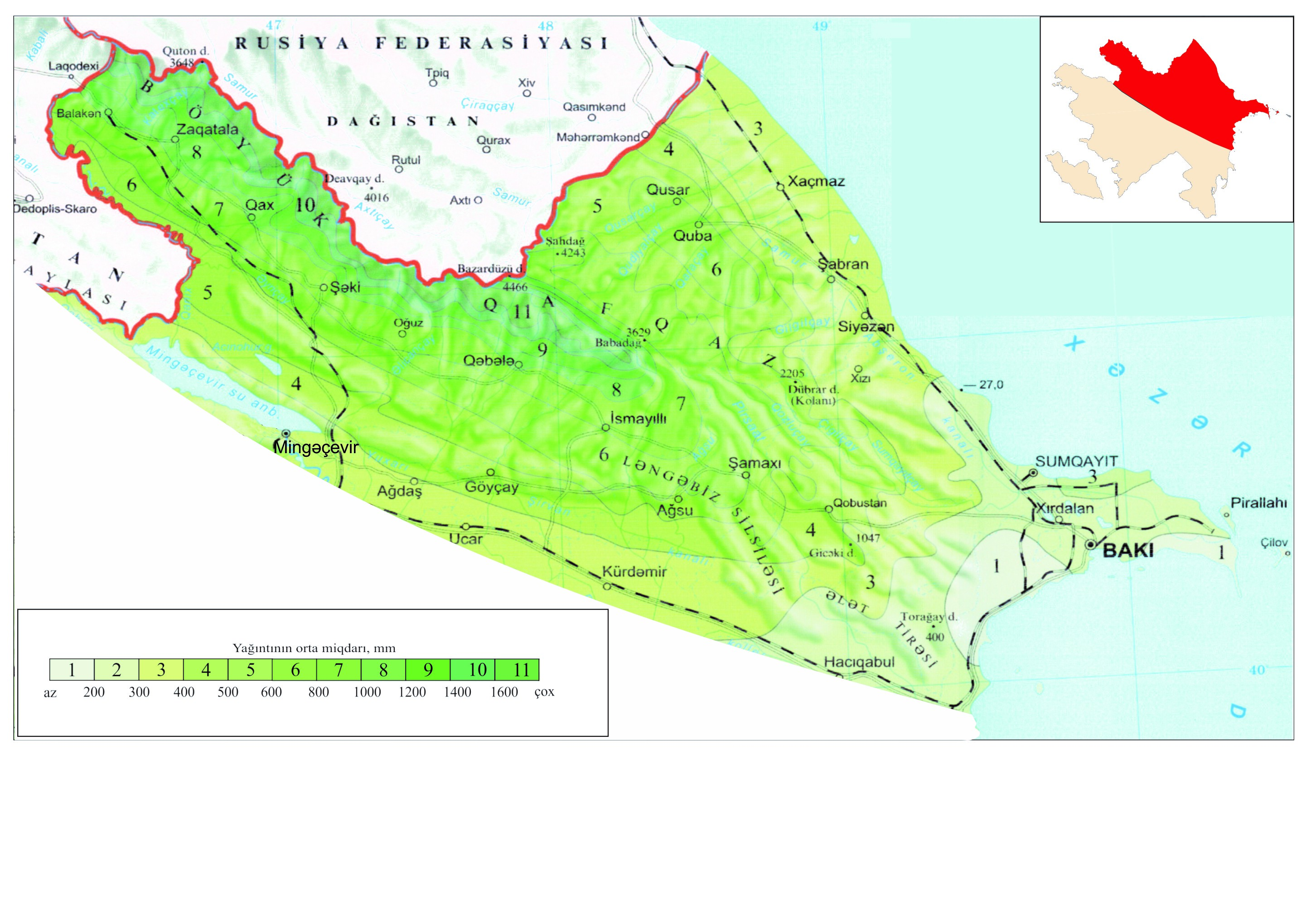 Böyük Qafqaz təbii vilayətində atmosfer yağıntılarının illik temperaturu